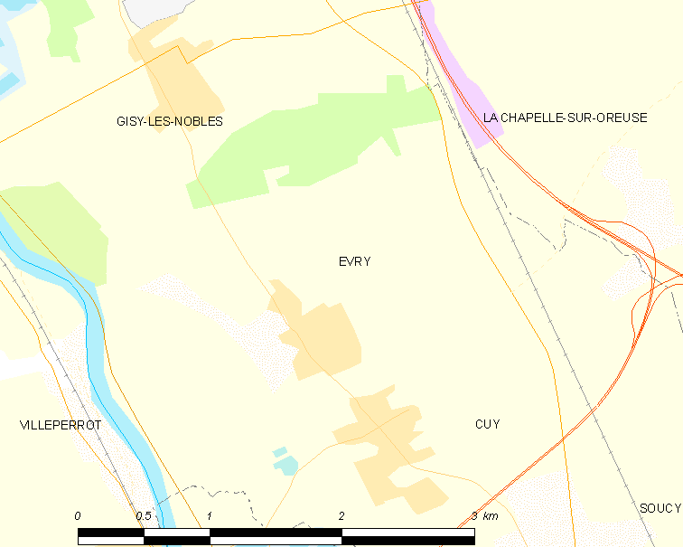 Map of French municipality Évry